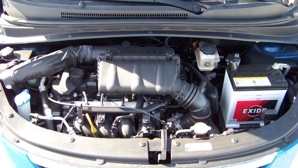 Hyundai Kappa I4 1.25 cc engine.